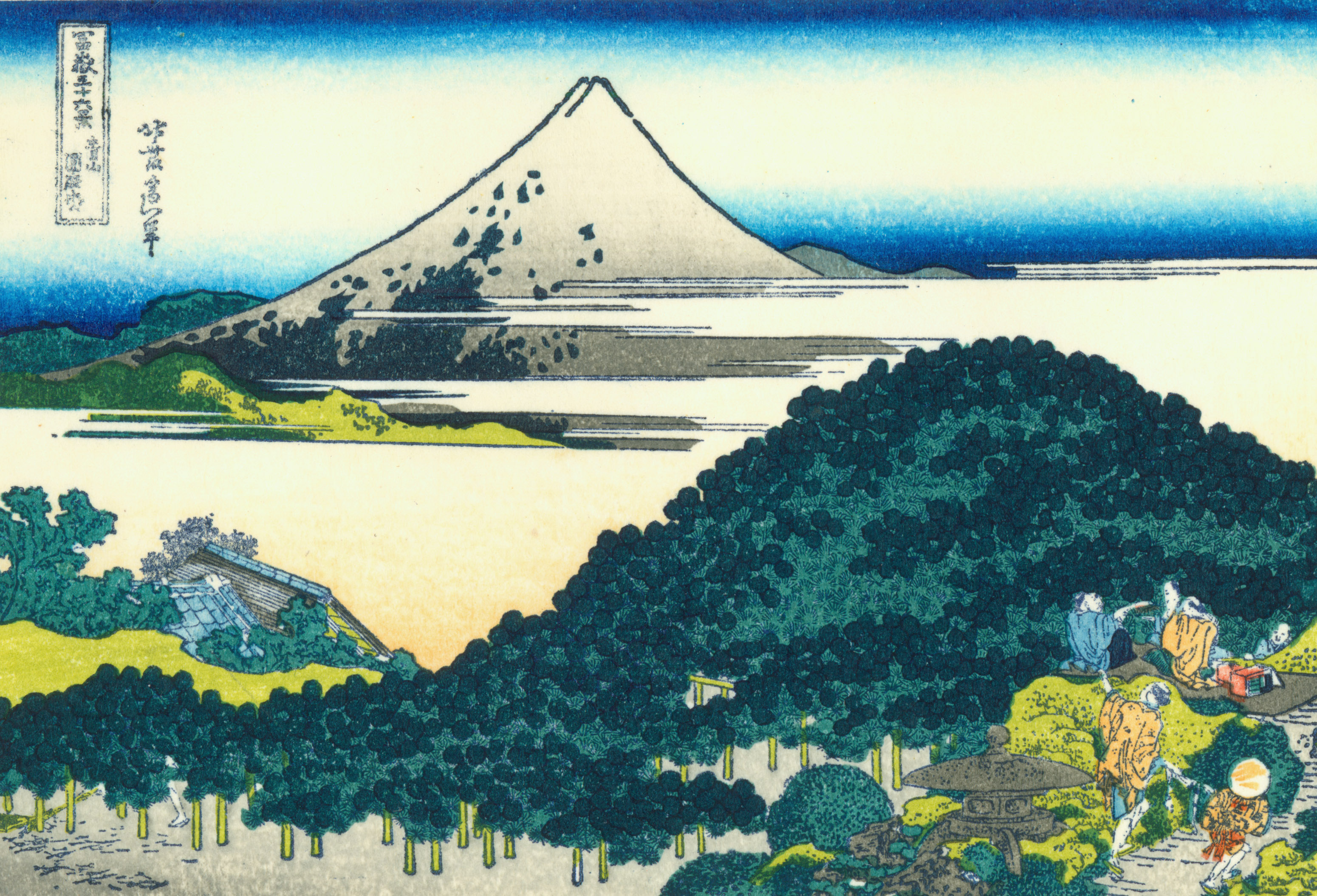 Part of the series Thirty-six Views of Mount Fuji, no. 08.